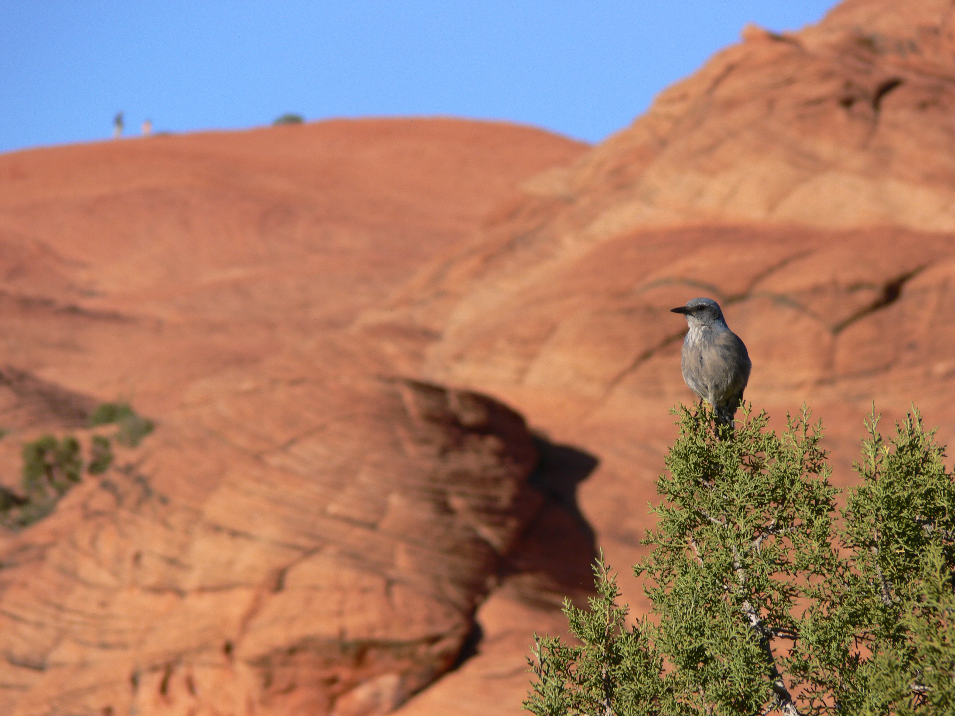 I believe this is a pinyon jay . It was good enough to pose so properly for me.